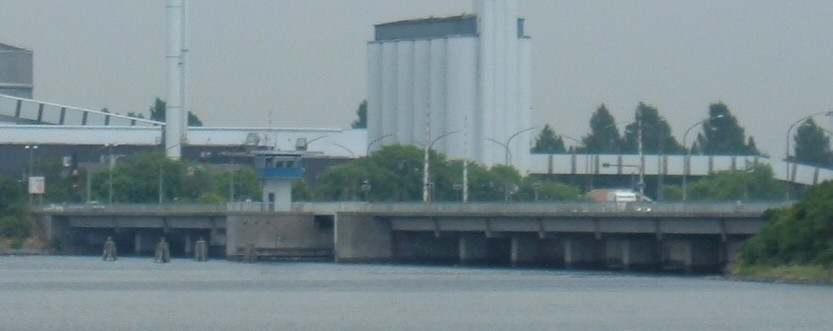 Frederick IX bridge at Nykobing Falster between the islands of Falster and Lolland in south Denmark. View from Lolland showing whole span. Taken by contributor, July 2006.